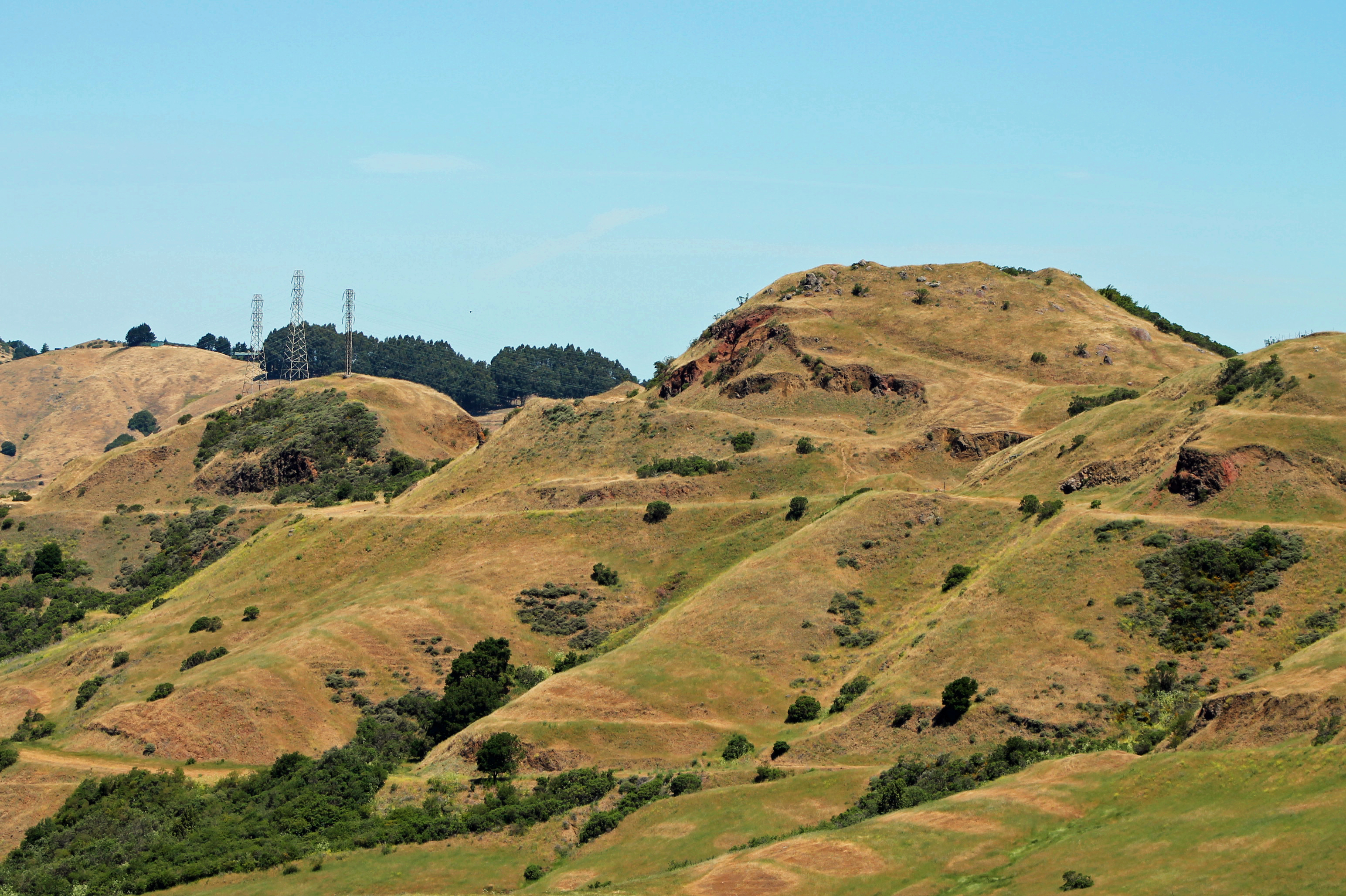 View from Round Top a dormant volcano at Sibley Volcanic Regional Preserve, Oakland, CA